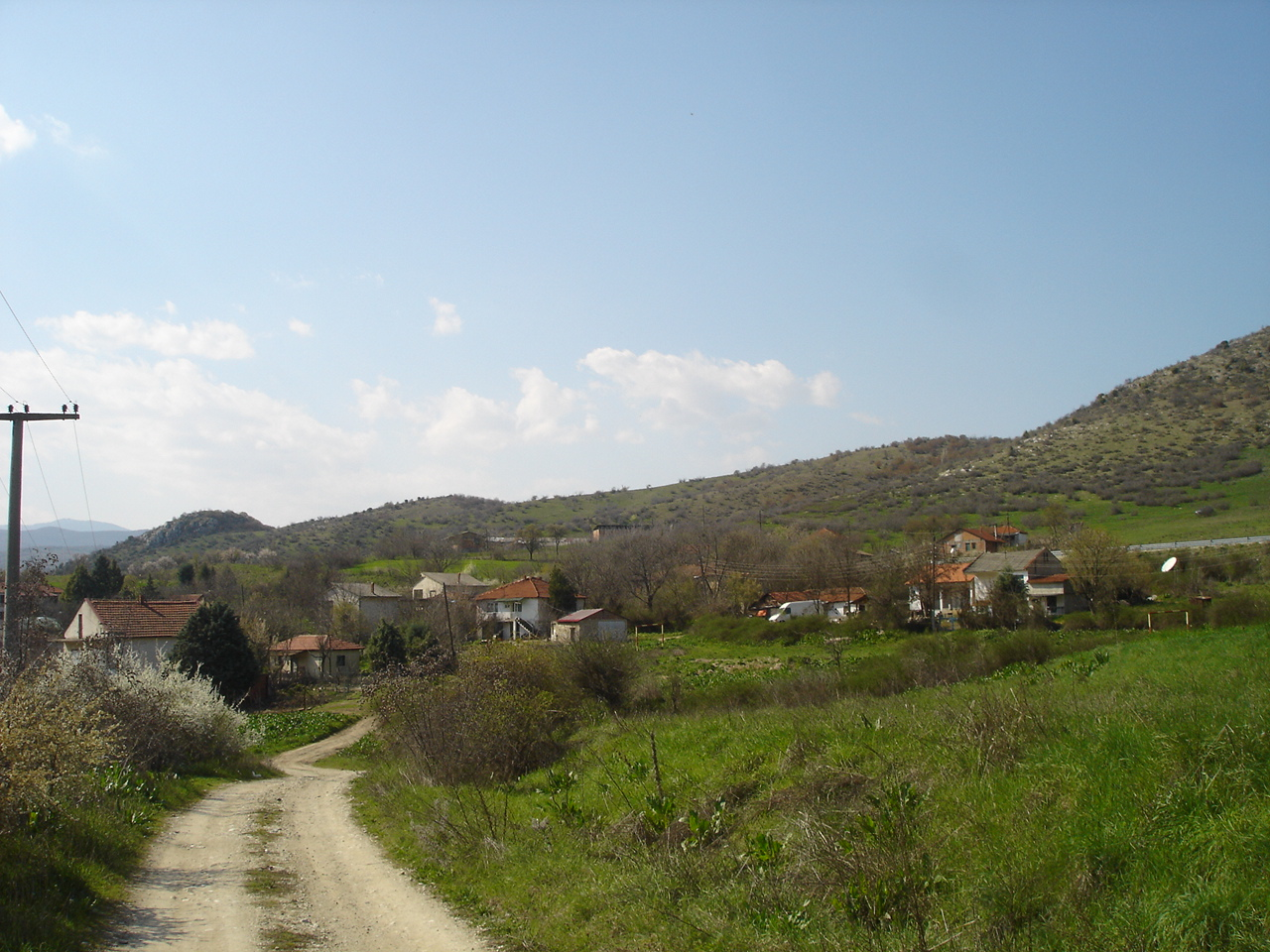 village of Sopot, near Veles, Macedonia